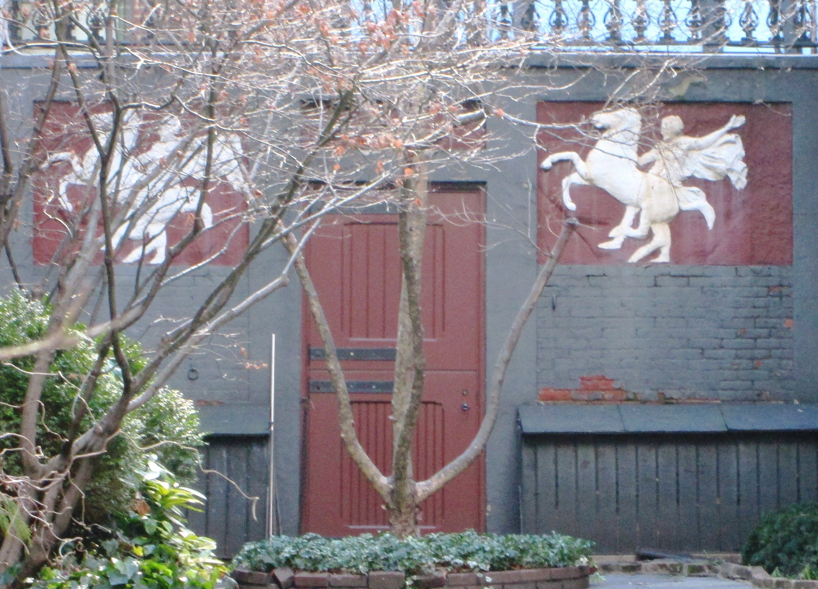 The Sniffen Court Historic District, located off of East 36th Street between Third and Lexington Avenues in the Murray Hill neighborhood of Manhattan, New York City, was created in 1966, and consists of 10 two-story brick stables built in 1863-1864 in the early Romanesque Revival style, which were converted into residences and studios in the 1920s; two of the (#1 and #3) are the home of the Amateur Comedy Club, which has been in existence since 1884. The rear wall of the mews, shown in this image, has two sculpted plaques by Malvina Hoffman, whose studio was in one of the buildings. (Sources: Guide to NYC Landmarks (4th ed.) and "Amateur Comedy Club brochure")